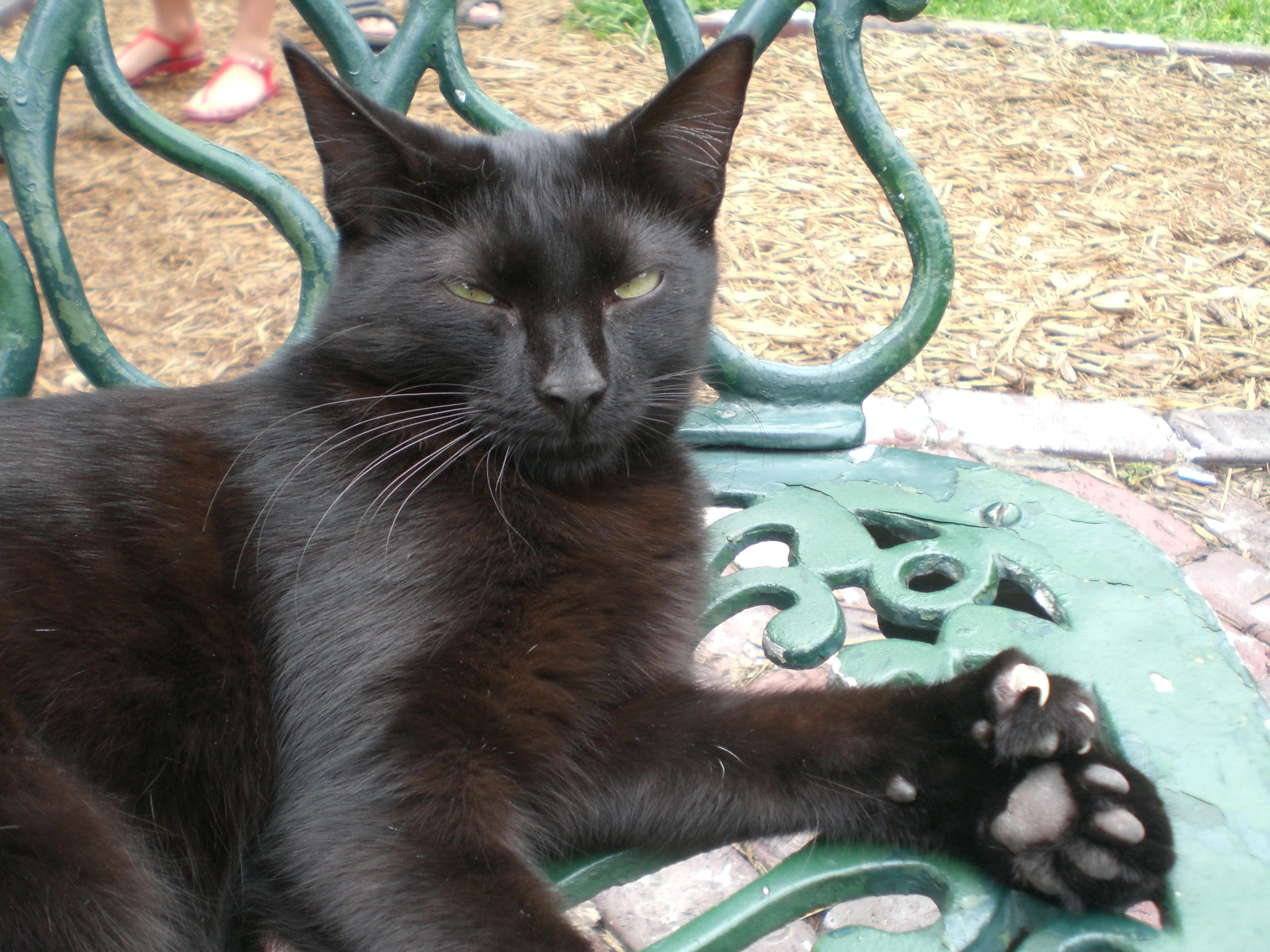 Digital photo taken by Marc Averette. One of the many Polydactyl cats at Ernest Hemingway House in Key West, Florida on 2/10/2007.